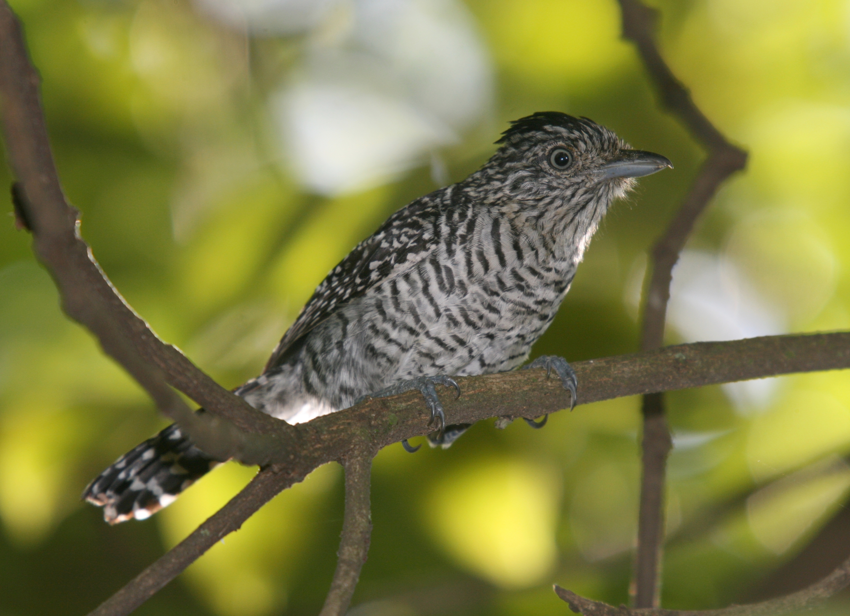 Barred Antshrike in Goiânia, Goiás, Brazil.